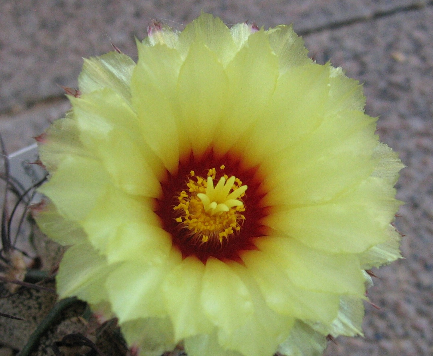 Blüte von Astrophytum capricorne